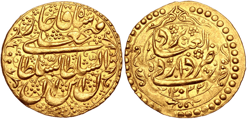 IRAN, Qajars. Fath 'Ali Shah. As Shah, AH 1212-1250 / AD 1797-1834. AV Toman (25mm, 4.61 g, 10h). Type W. Dar al-Ibadat Yazd mint. Dated AH 1233 (AD 1817/8). Album 2865; KM 753.13; Friedberg 34. EF.